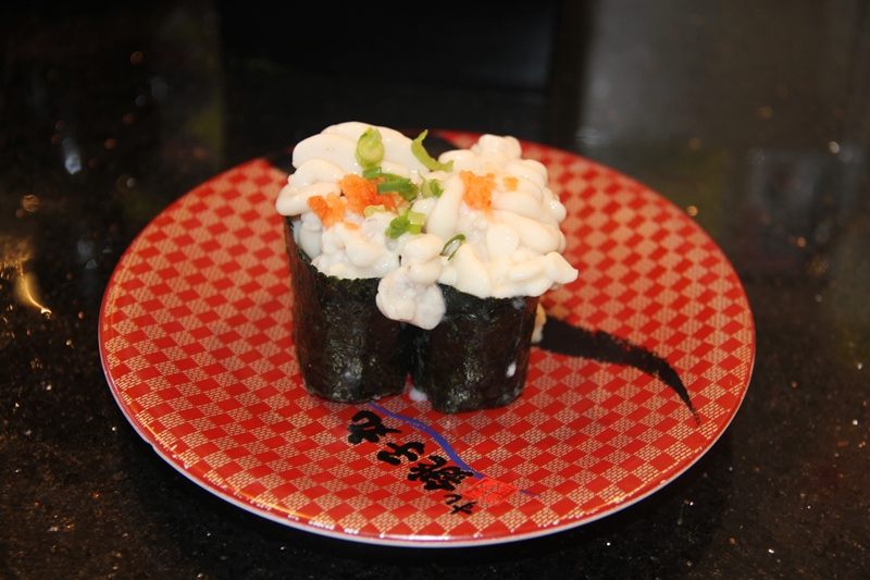 Shirako gunkanmaki, sushi (Soft roe of Codfish)